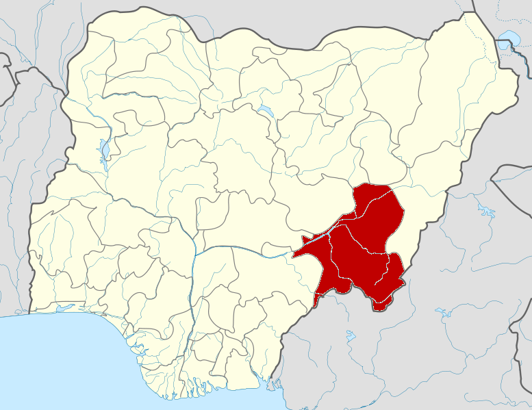 Map locator of Nigeria.